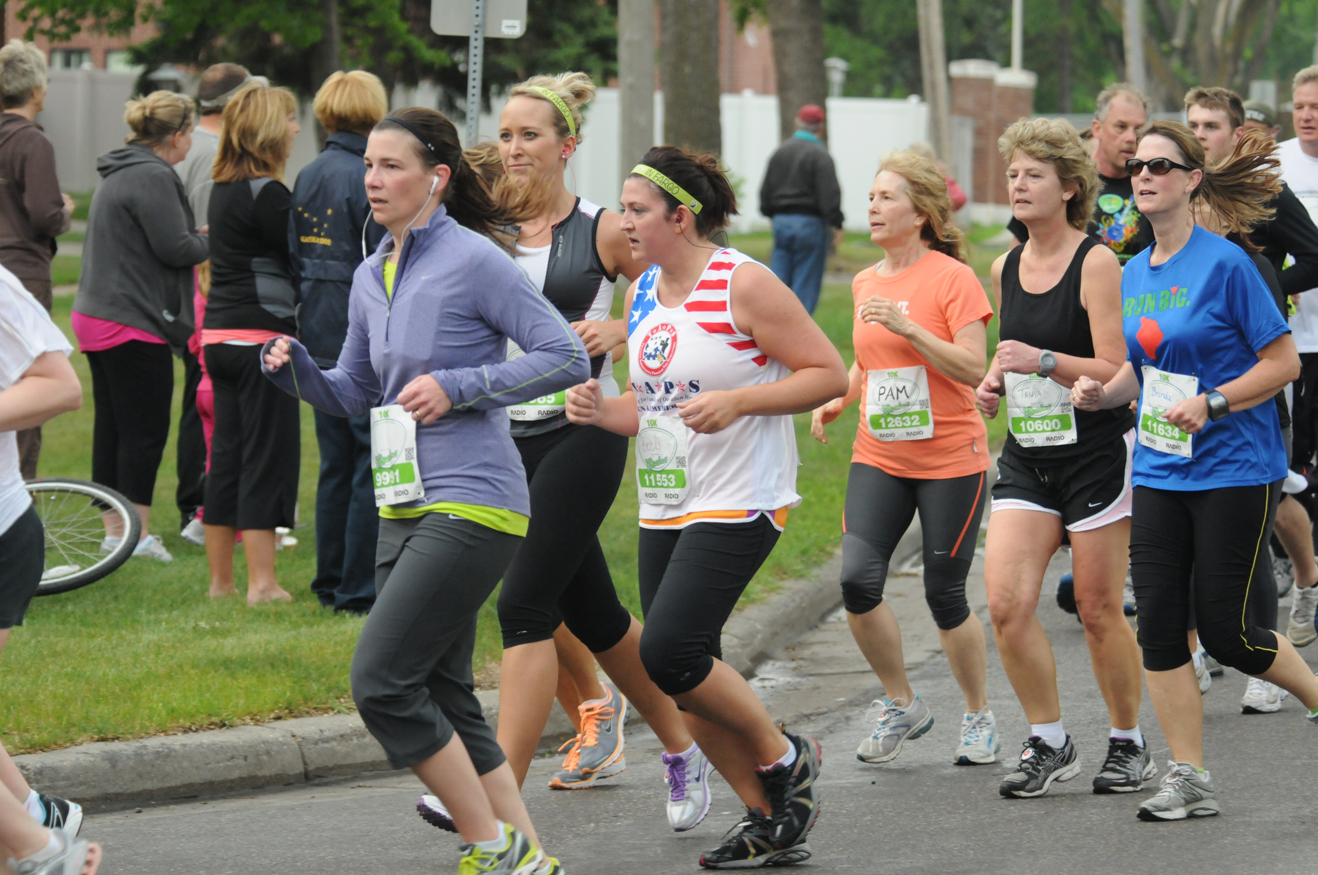 North Dakota Air National Guard Staff Sgt. Rebecca Peterson, center, runs the Fargo Marathon 10K, May 19, Fargo, N.D. She is running on the Tragedy Assistance Program for Survivors (TAPS) Run and Remember Team in memory of her uncle Larry Guedesse, who gave his life while in service to the United States military, and also to raise money for TAPS programs that aid the survivors of those military members who paid the ultimate price.